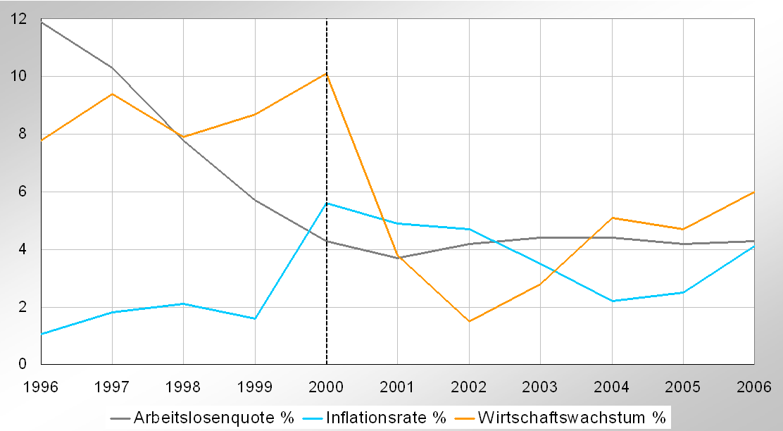 The chart shows the unemployment rate (grey), the inflation rate (blue) and the economic growth (orange) in Ireland from 1996 to 2006. In April 2000 a minimum wage was introduced (marked).